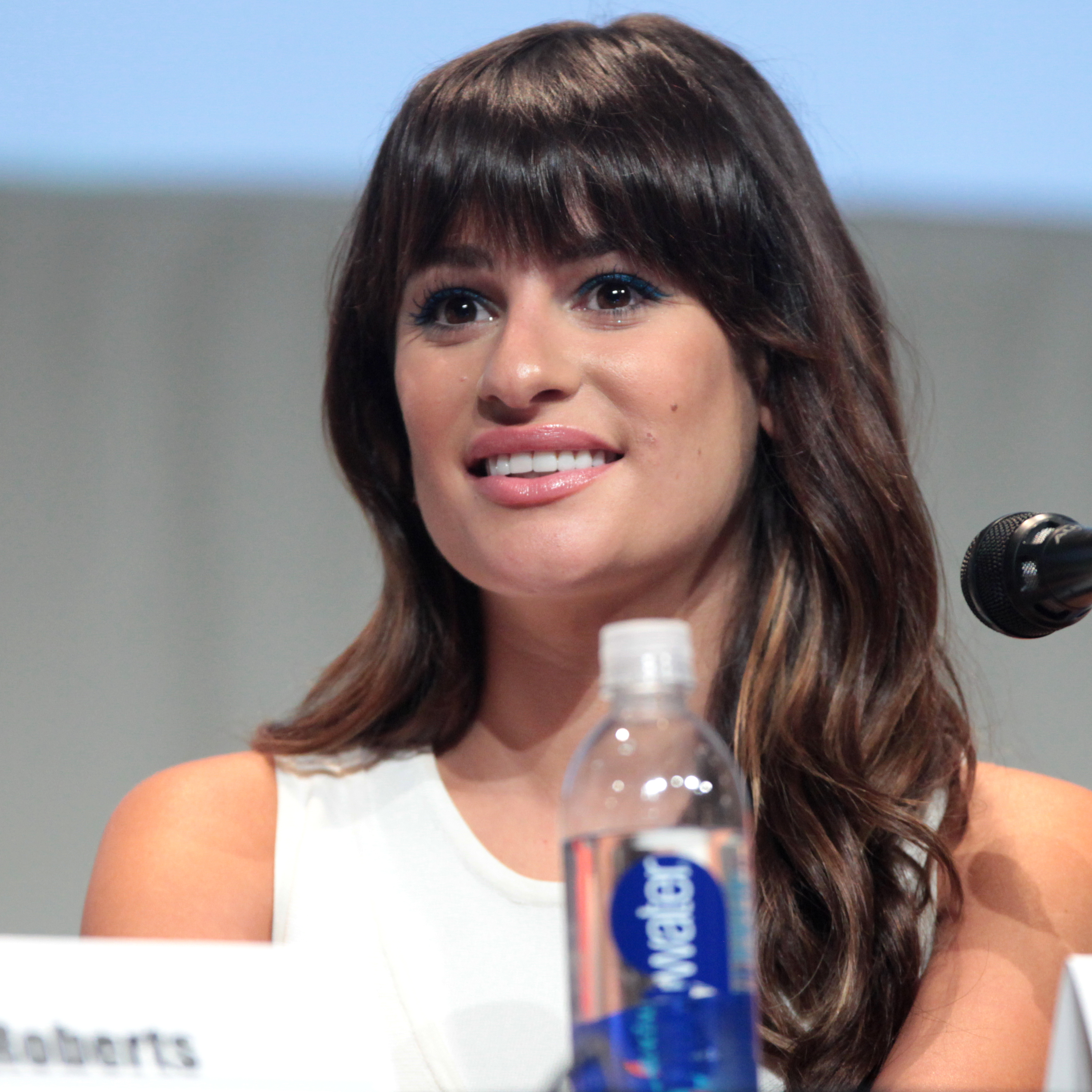 Lea Michele speaking at the 2015 San Diego Comic Con International, for "Scream Queens", at the San Diego Convention Center in San Diego, California.